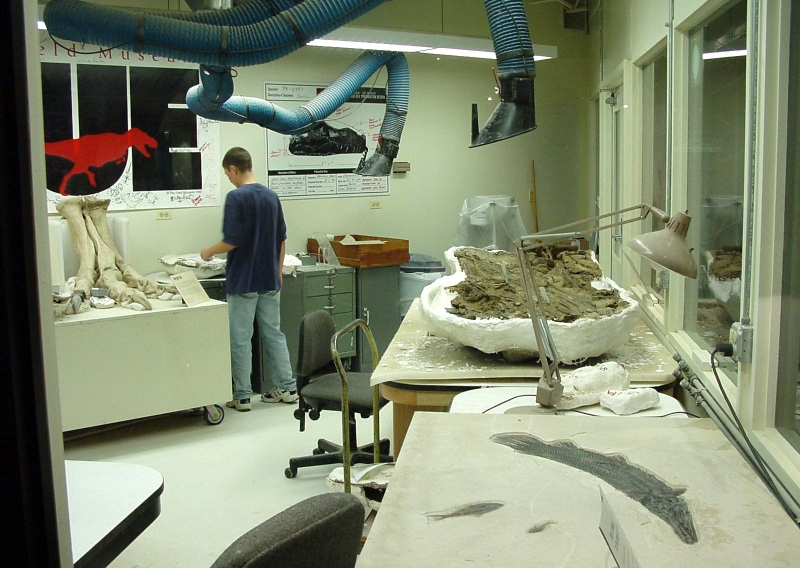 Field Museum of Natural History, Chicago, Illinois, USA